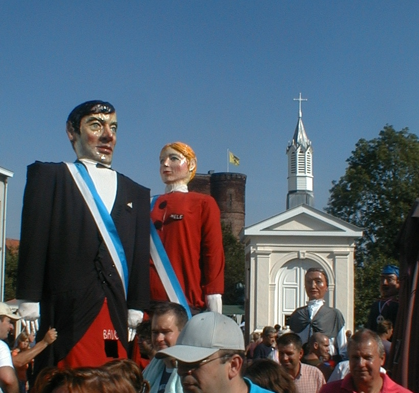 Bavo and Nele are giants from Moerzeke, here they are dancing in Rupelmonde.